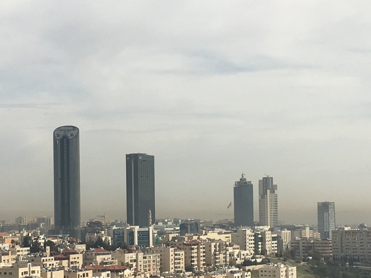 Abdali, Amman, Jordan